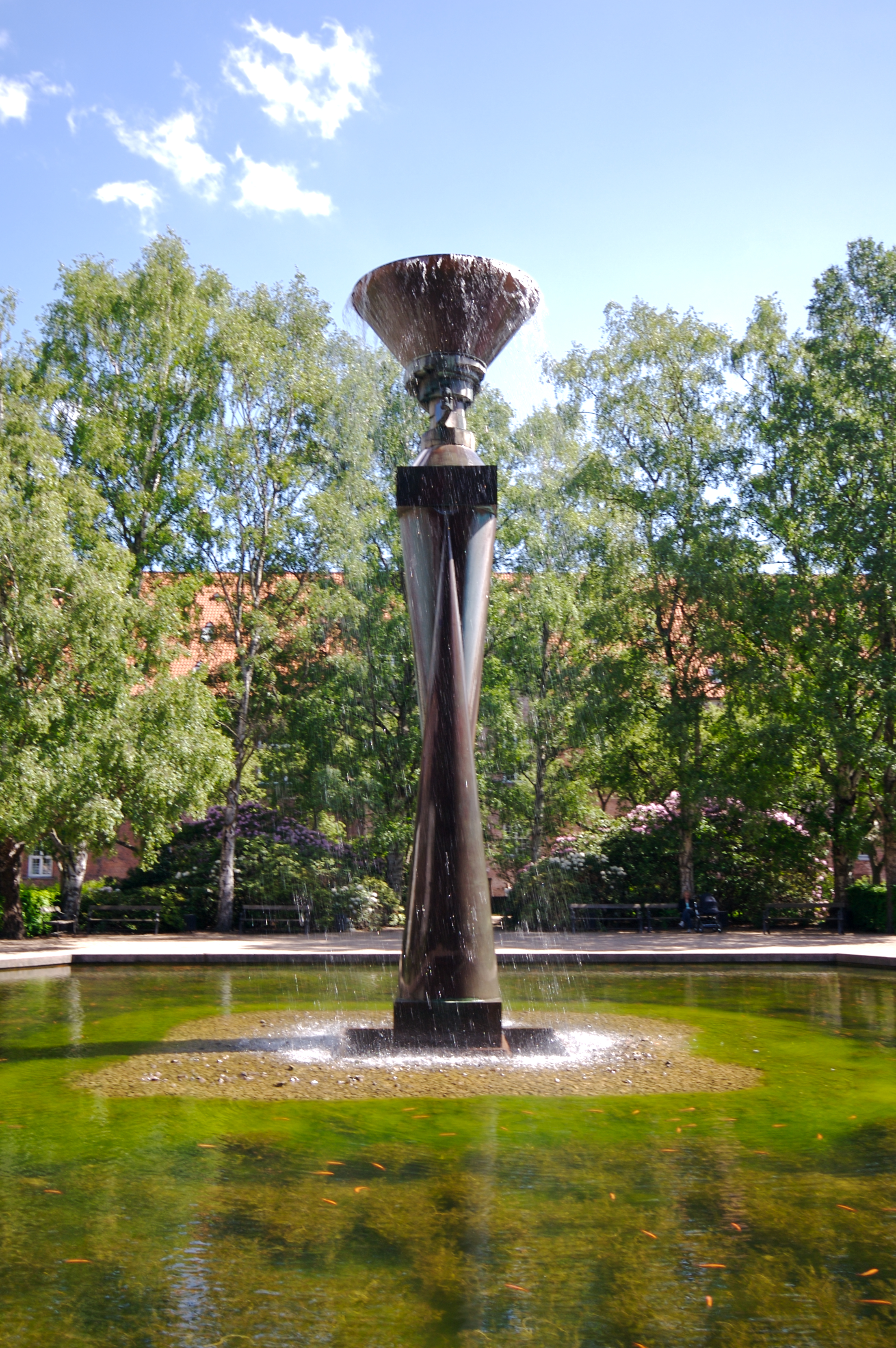 The water feature in the Royal Library Garden in Copenhagen, Denmark